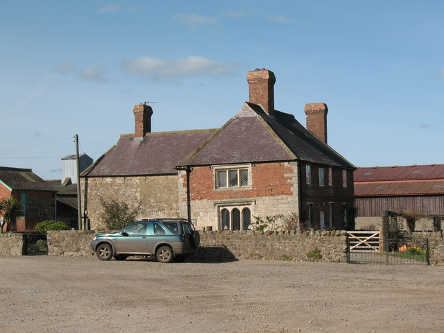 Middle Parks Farmhouse A most unusual looking house, with some historical features, such as the mullioned windows and large chimney stacks. Some of the house appears to date from the 16th century and may form part of what was the Archbishop of York's hunting lodge in the Ripon Parks deer park.